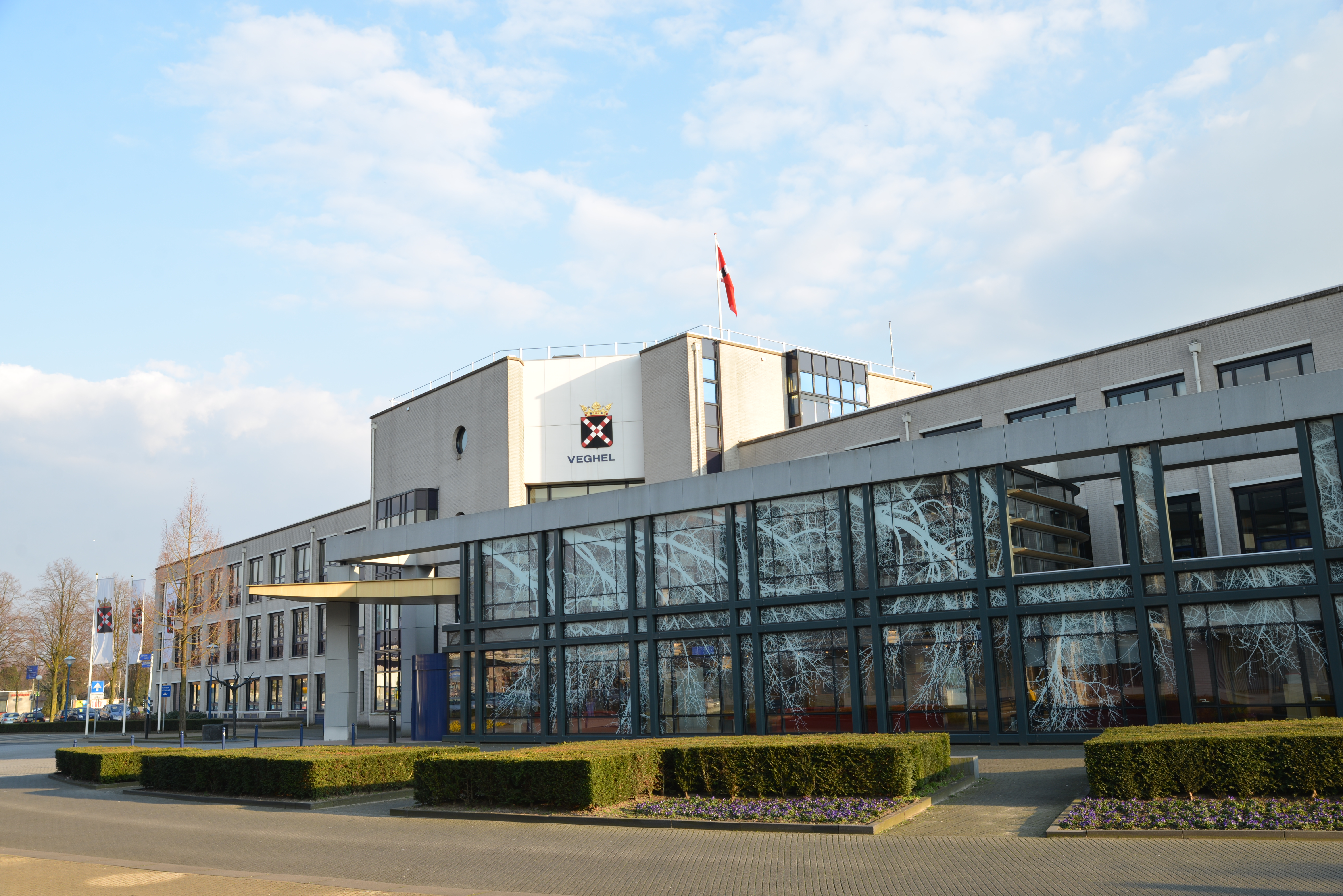 City Hall of the municipality of Veghel